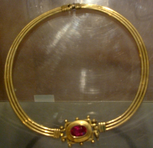 Gold and cornelian necklace found in Dalverzine Tepe. II-I c. BC. Reference